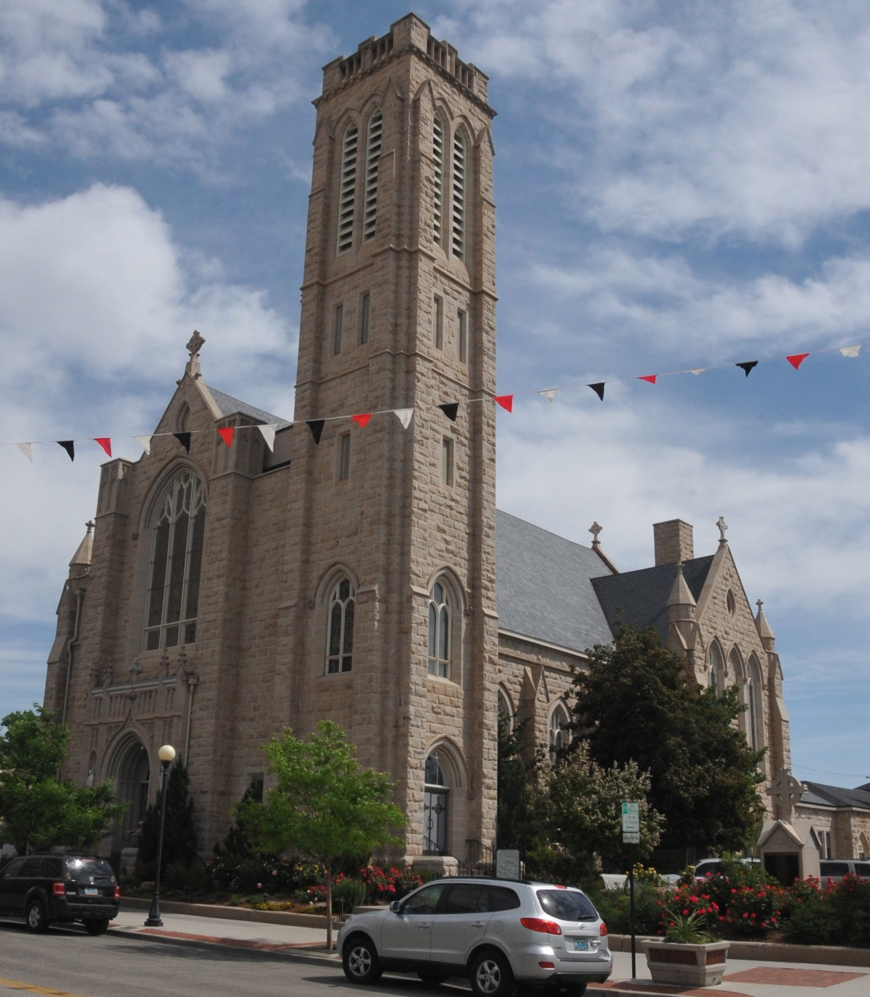 St. Mary's Cathedral in Cheyenne, Wyoming is listed on the National Register of Historic Places.